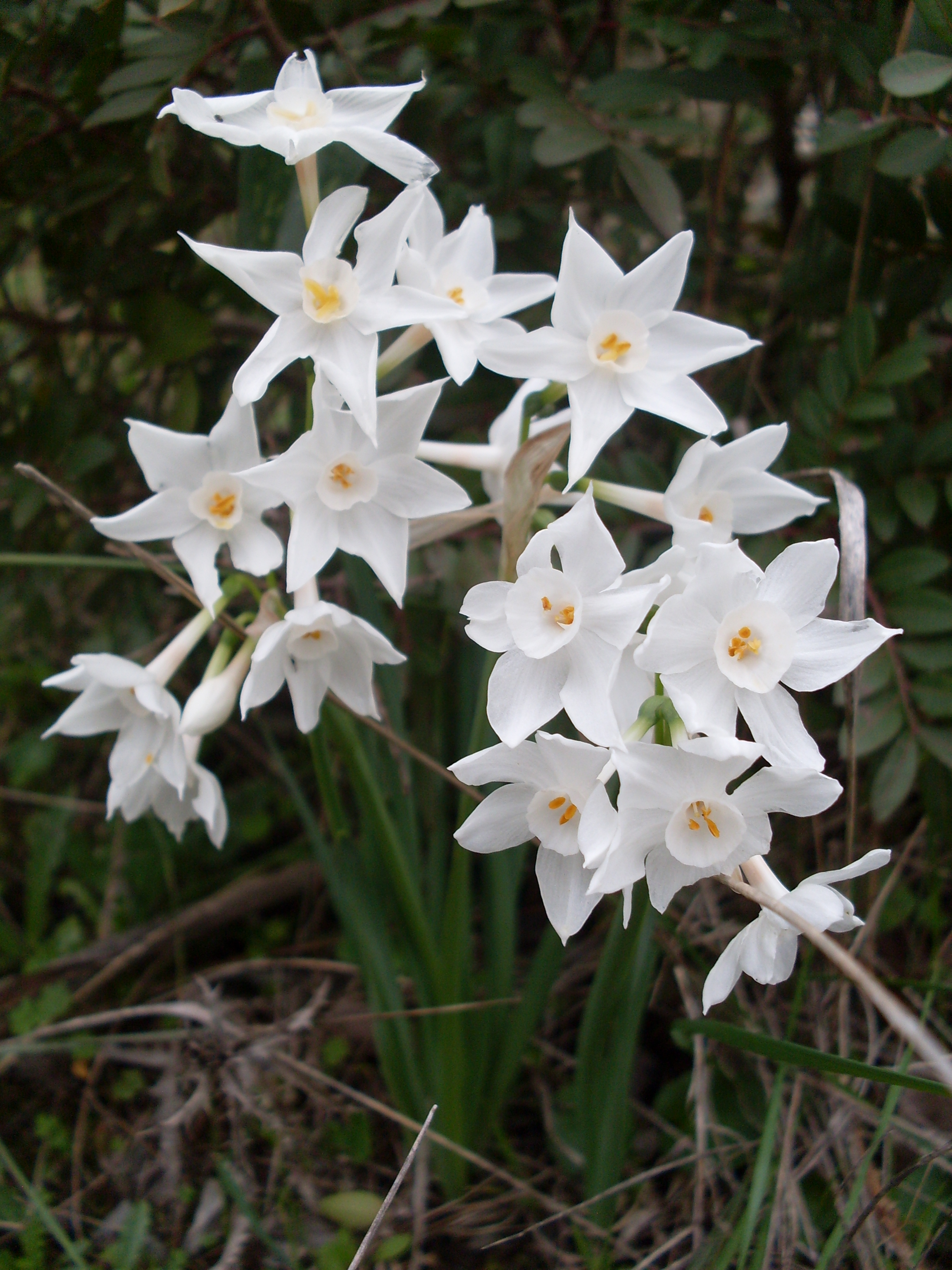 Paper white narcissus